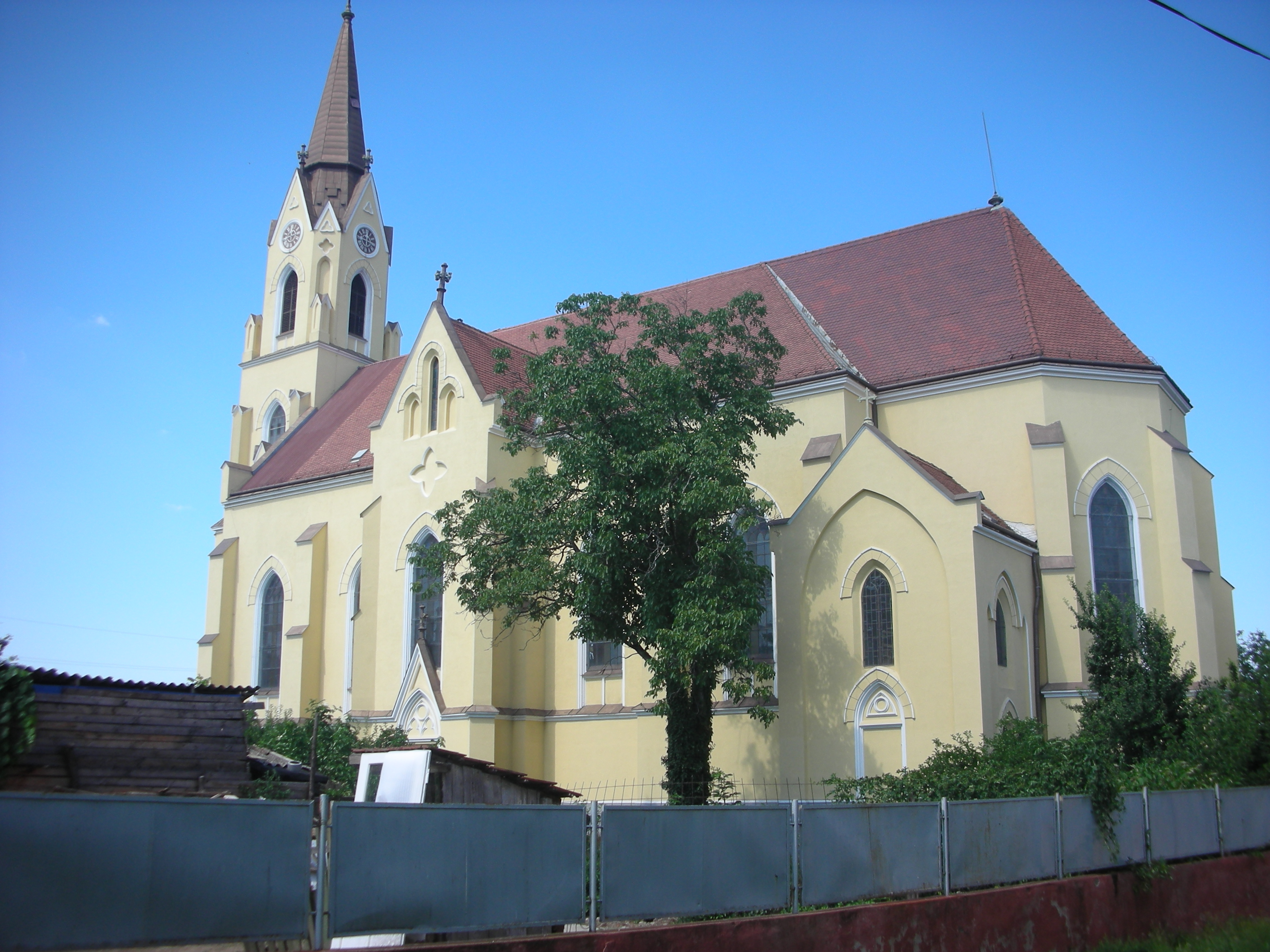 Roman Catholic church in Ciacova (Csákova, Tschakowa), Banat region, Romania